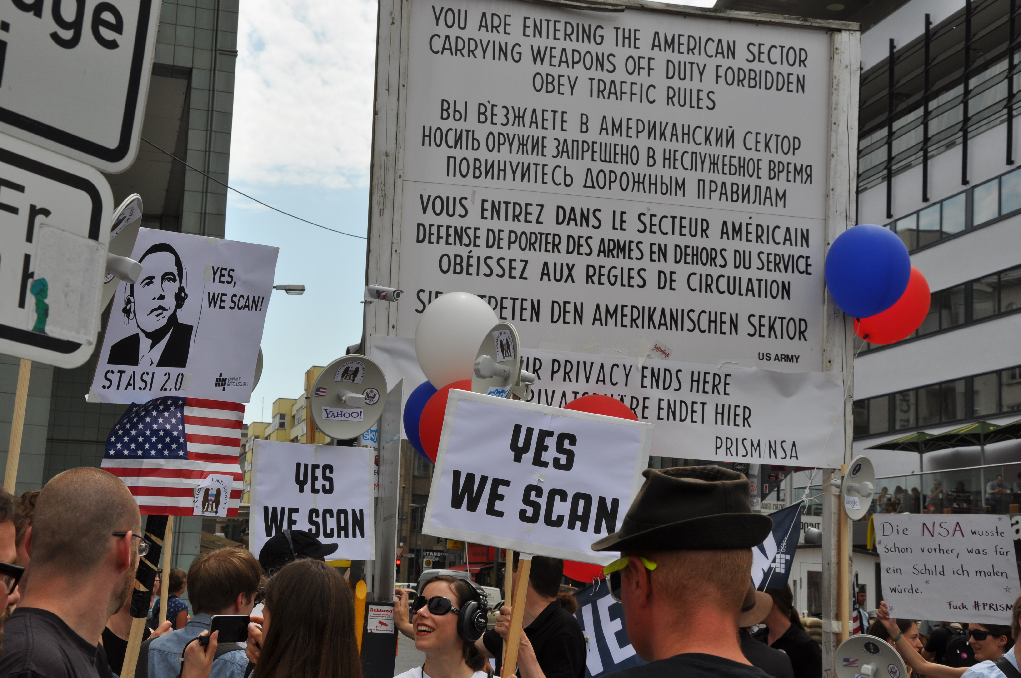 Yes we scan - Demo am Checkpoint Charlie